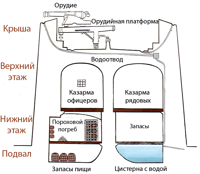 Diagram of a Martello tower's internal structure.